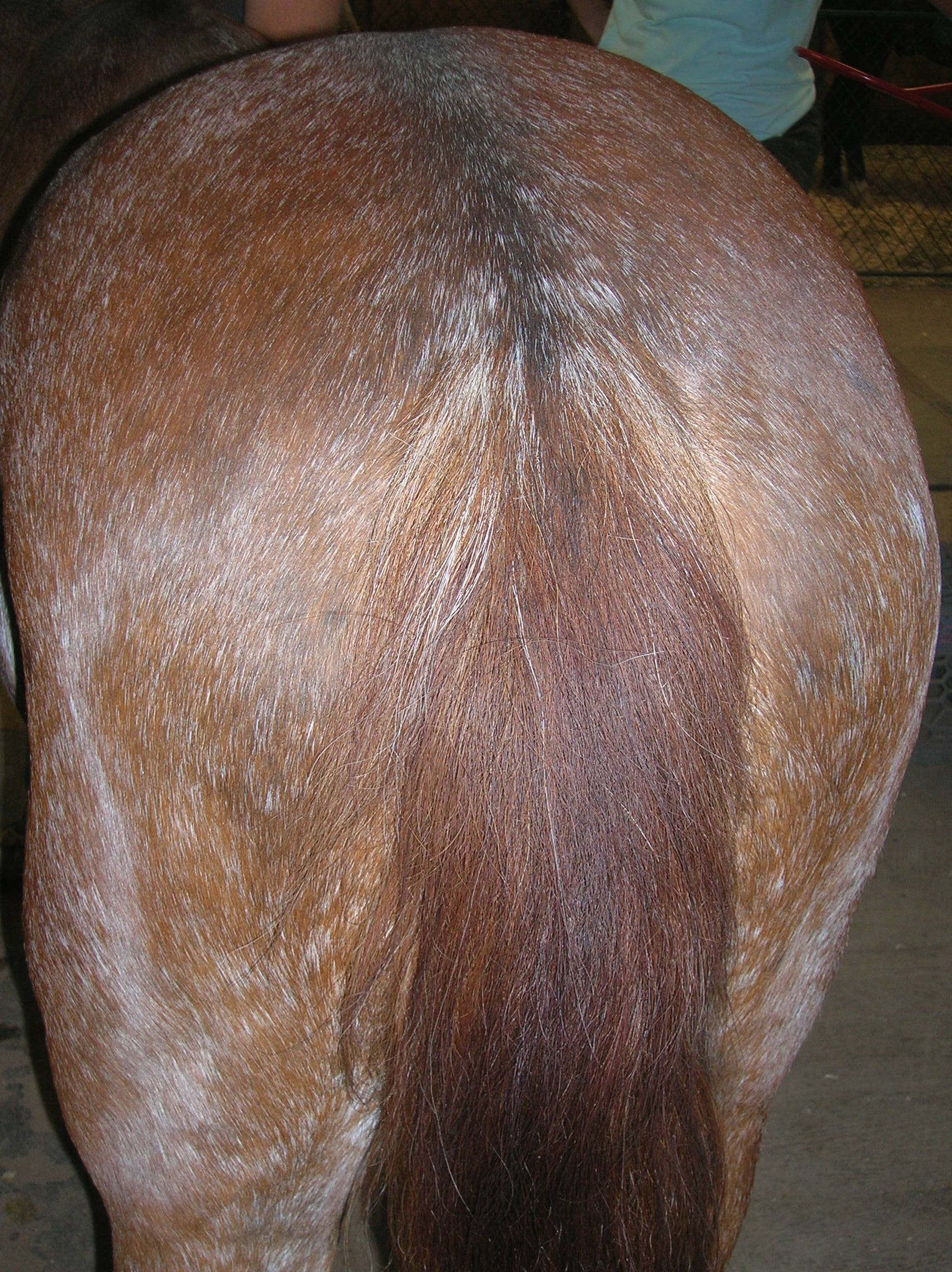 The tail of a chestnut rabicano pony, showing the associated ticking but also bands of white tail hairs near the dock.